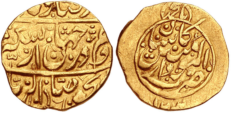 IRAN, Qajars. Agha Muhammad Khan. AH 1193-1212 / AD 1779-1797. AV Quarter Toman (17mm, 2.83 g, 7h). Type C. Kashan mint. Dated AH 1204 (AD 1789/90). Album 2835; KM 624a.2 (date unlisted). VF, lightly toned, slightly wavy flan.